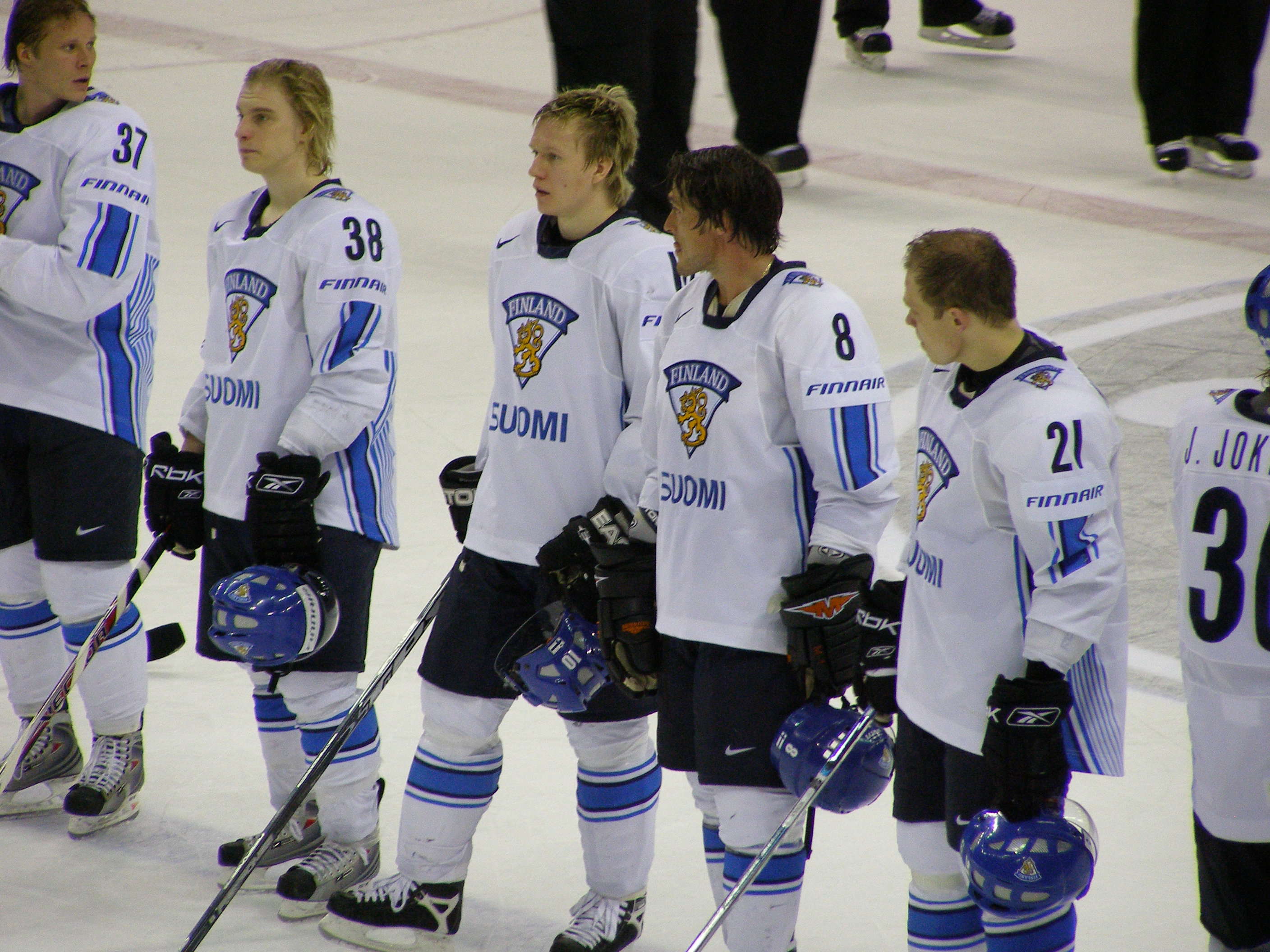 Team Finland players, 2008 IIHF World Championship.